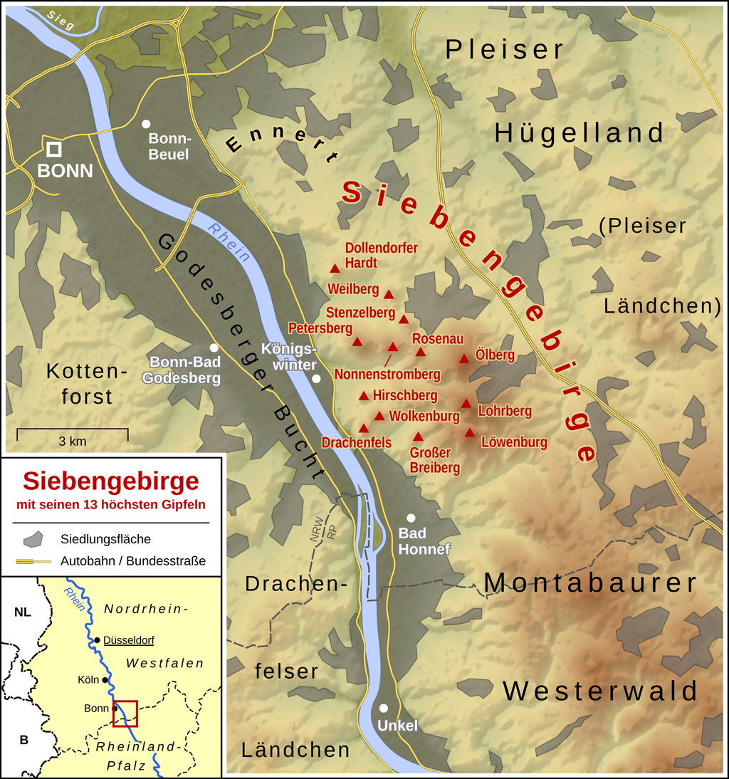 General map of the Siebengebirge, Germany